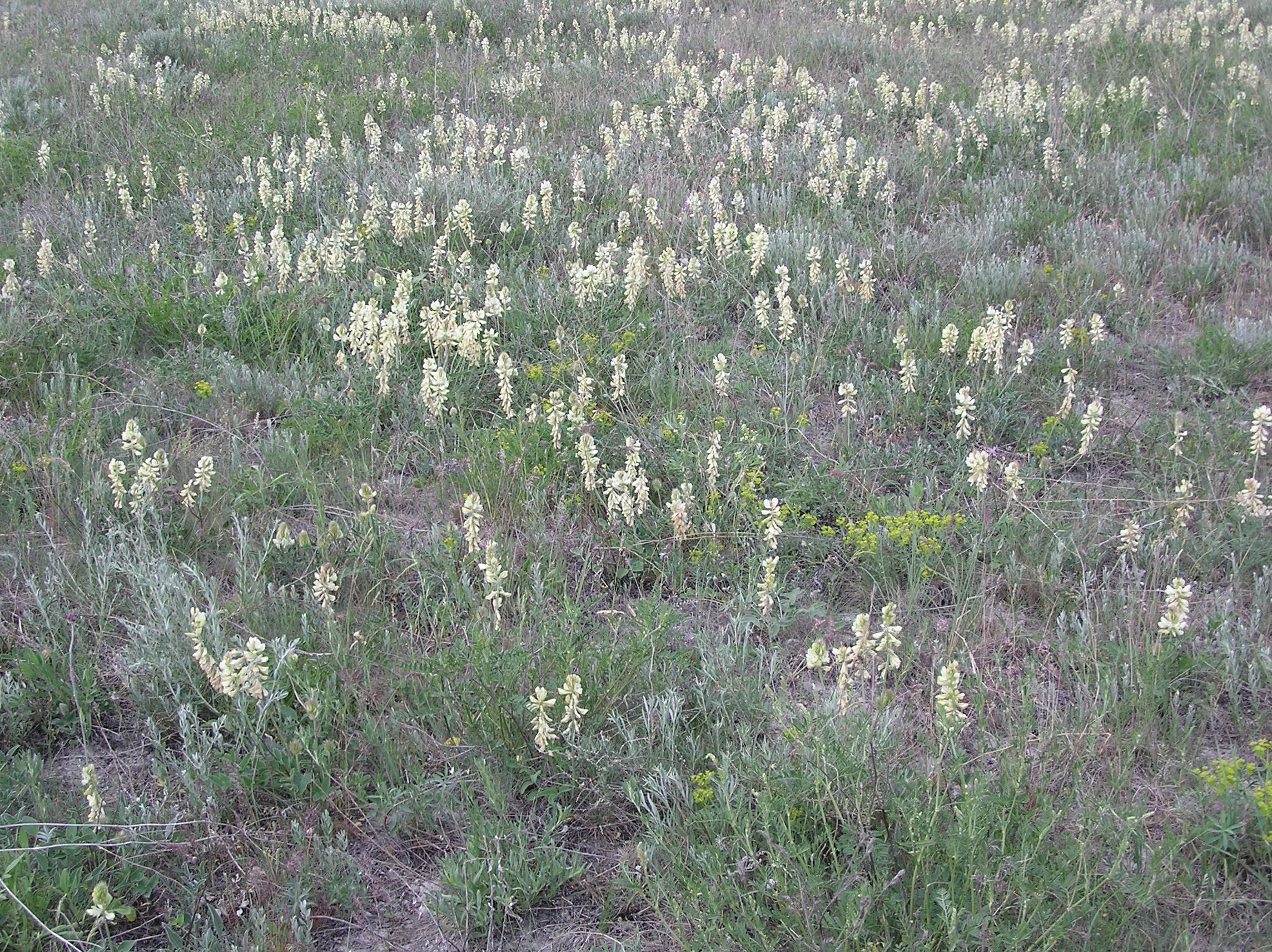 Hedysarum grandiflorum Pall. Habitat: southern chalk slope. Vicinity of Saratov city, Russia.